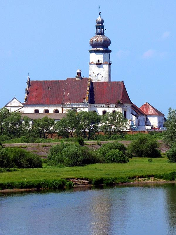 Monastery of Bernardines in Zhvyrka nearly Sokal, Lviv regon, Ukraine